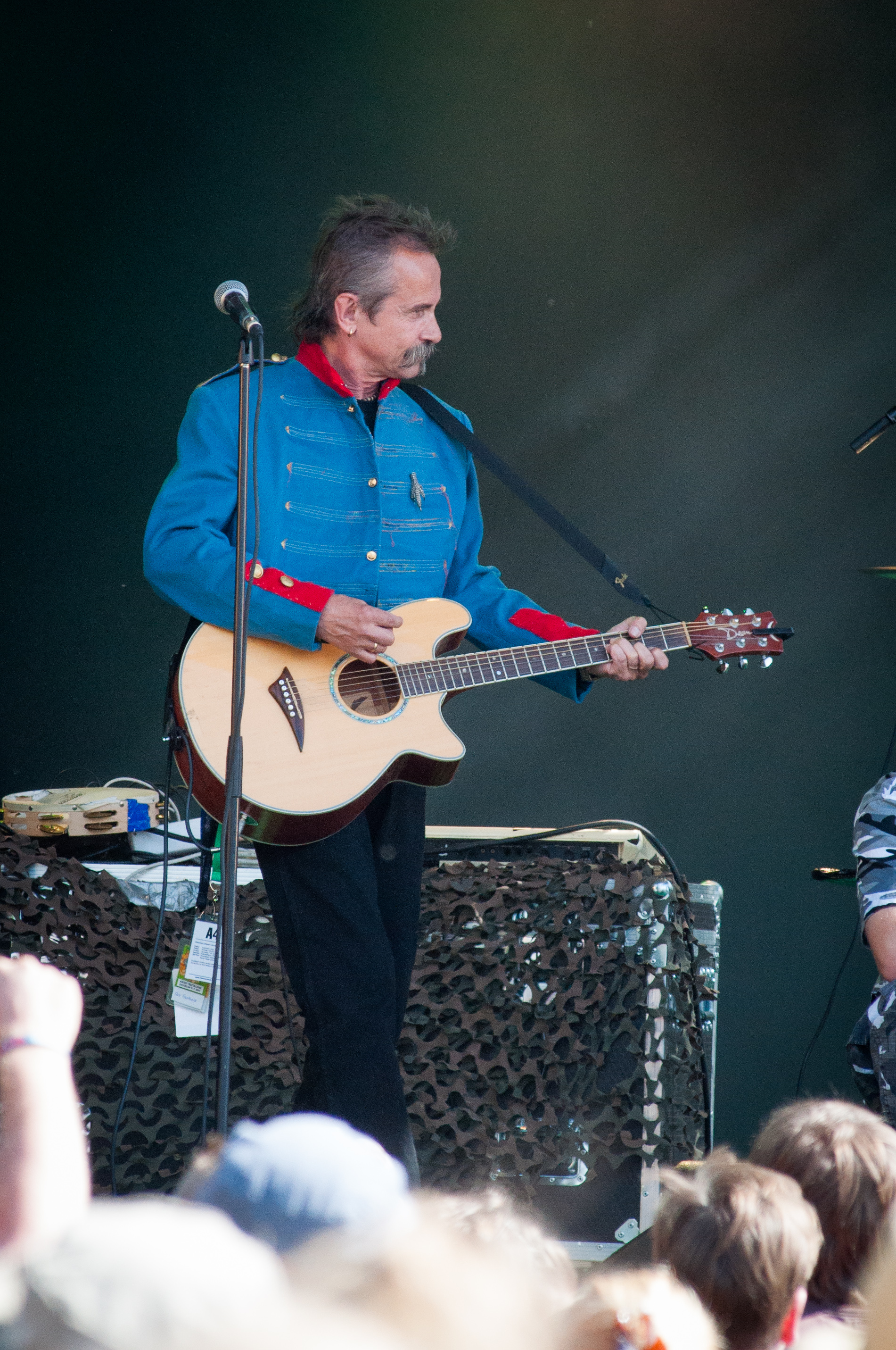 Finnish musician Freeman performing at the 2011 Ilosaarirock festival in Joensuu, Finland.